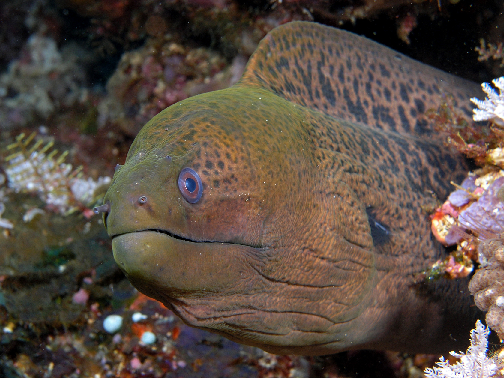 Moray eel (Gymnothorax javanicus) in Komodo National Park